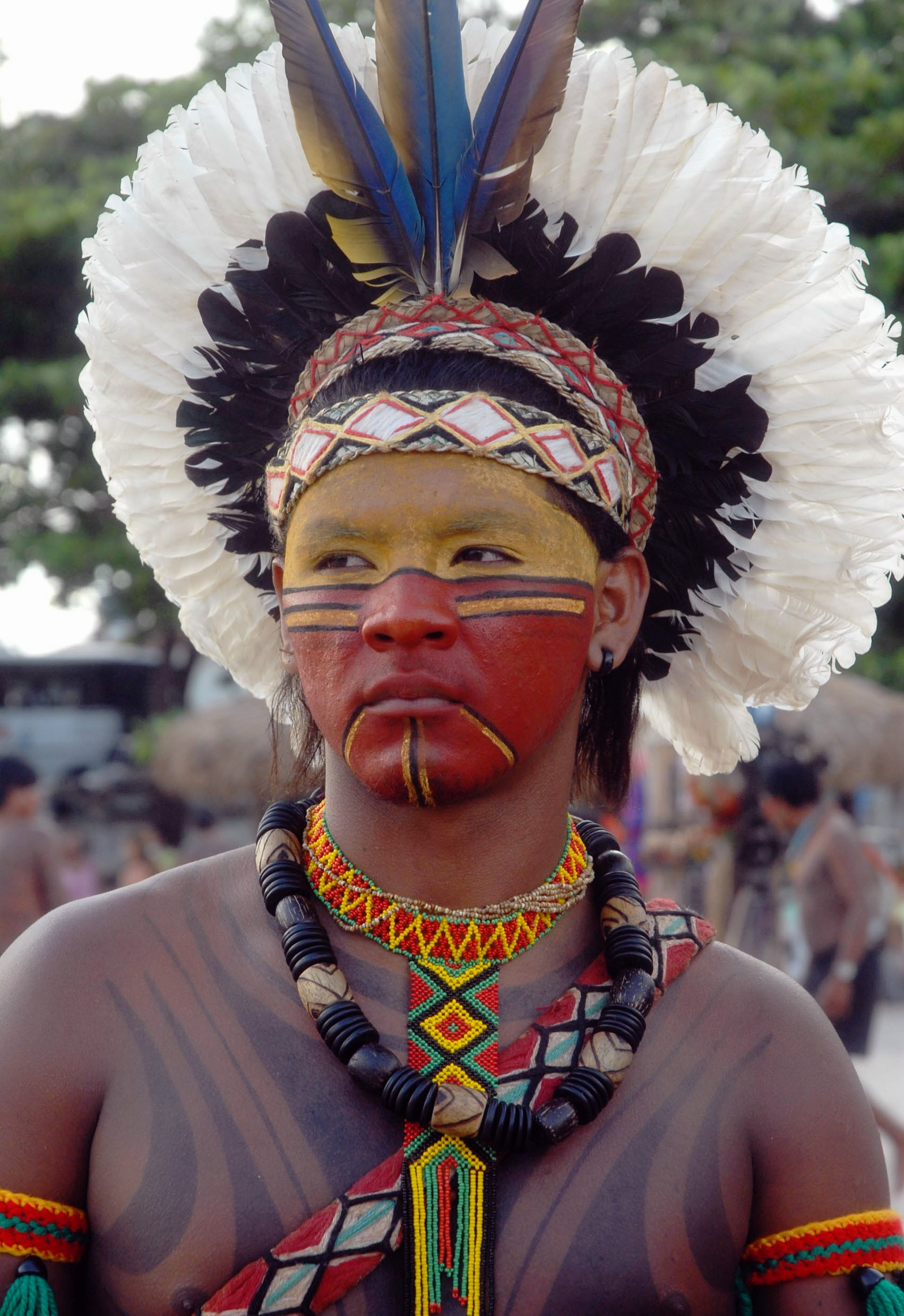 Pataxó man poses for a photo during Brazil's 9th Indigenous Games